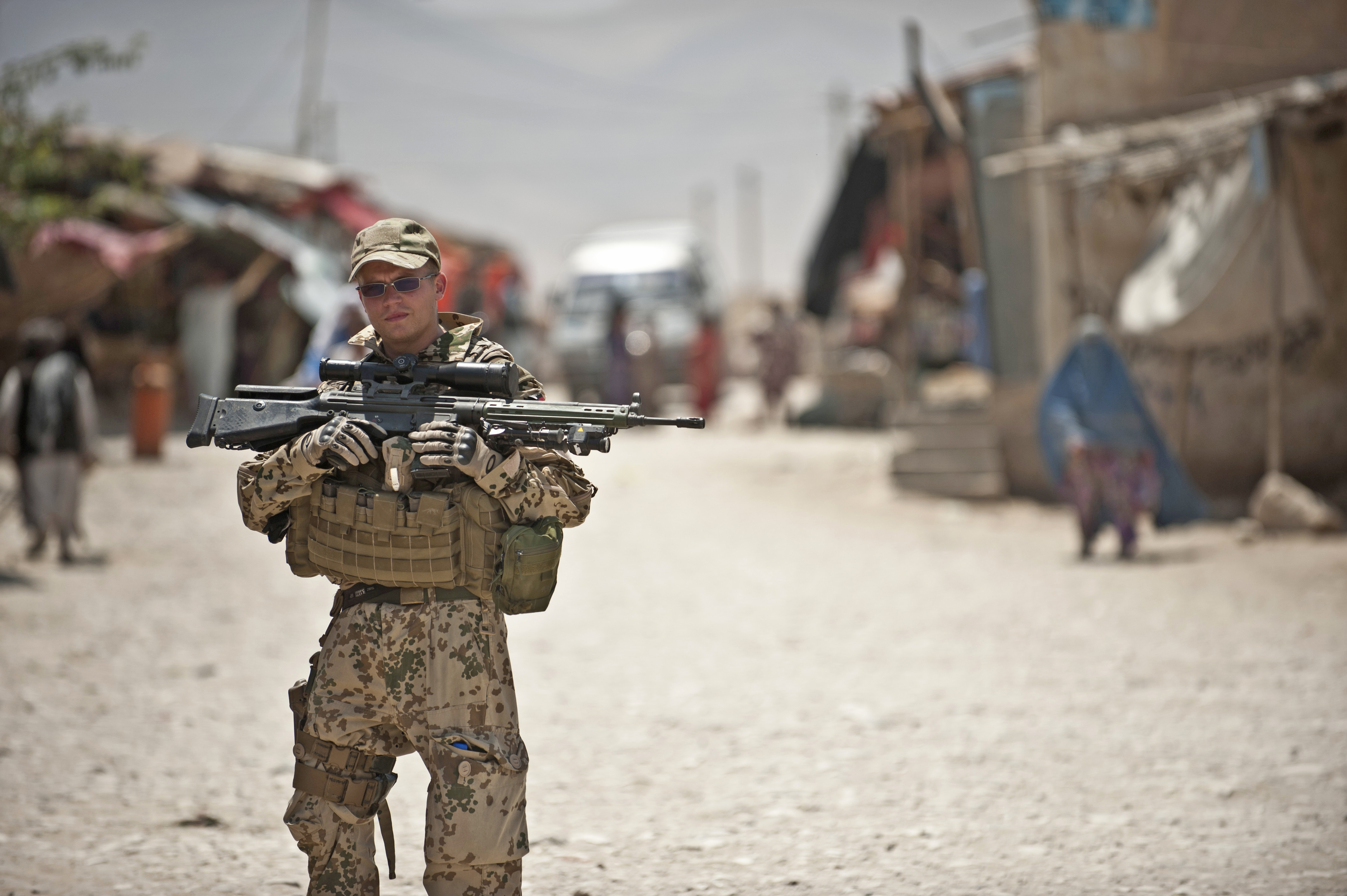 A soldier assigned to the International Security Assistance Force patrols the streets of Mazar-e Sharif. Soldiers assigned to ISAF, Regional Command North, are currently deployed in support of the Government of the Islamic Republic of Afghanistan, operating to reduce insurgency, support growth of the Afghan National Security Forces, and facilitate governance and socio-economic development. ISAF Regional Command North Photo by Petty Officer 2nd Class Jonathan Chandler Date Taken:07.04.2011 Location:MAZAR-E-SHARIF, AF Related Photos